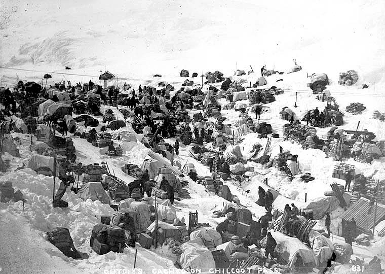 Chilkoot Pass, B.C.